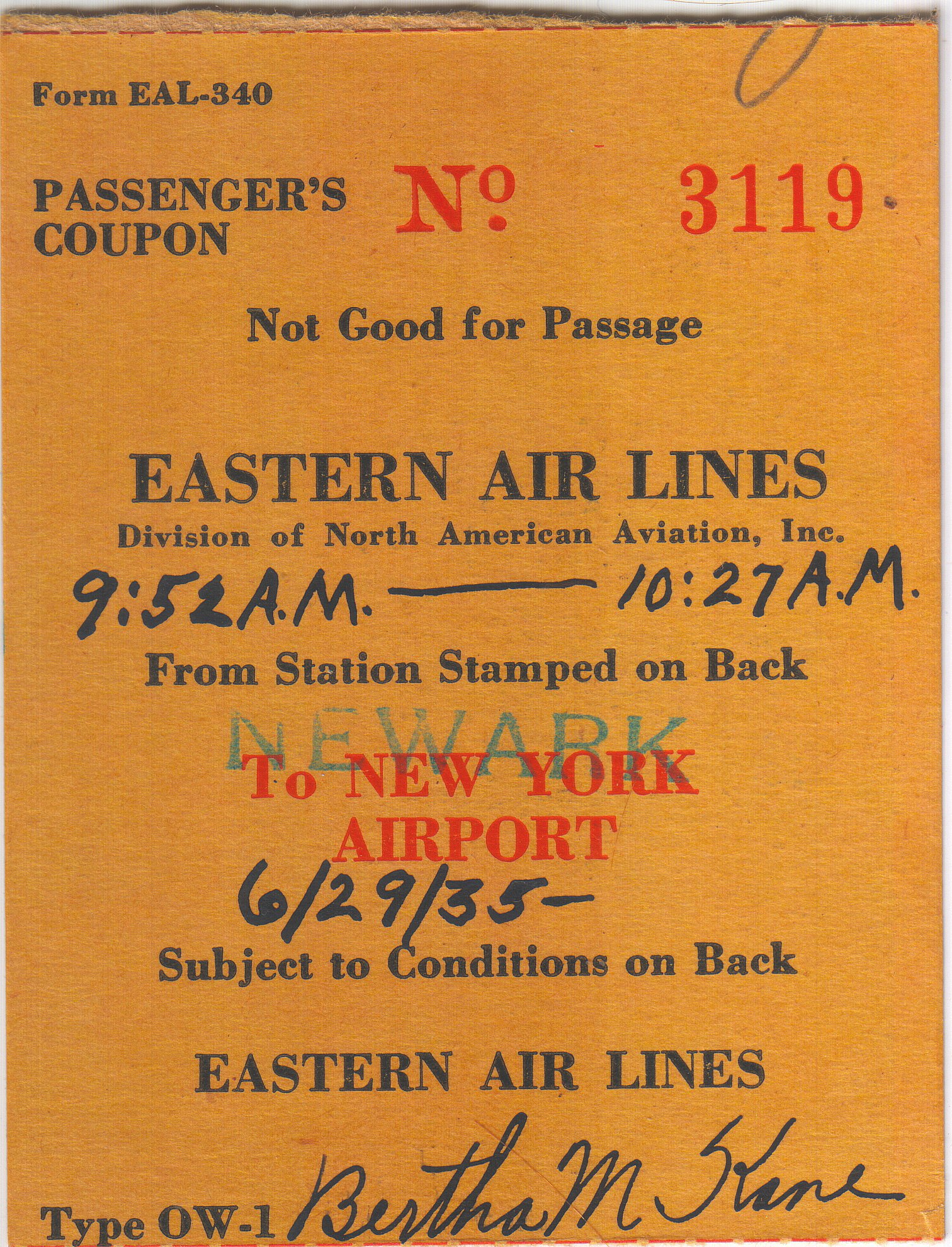 Passenger coupon for ticket #3119 for Eastern Air Lines flight from Philadelphia, PA (Camden, NJ) to New York City (Newark, NJ), June 29, 1935.